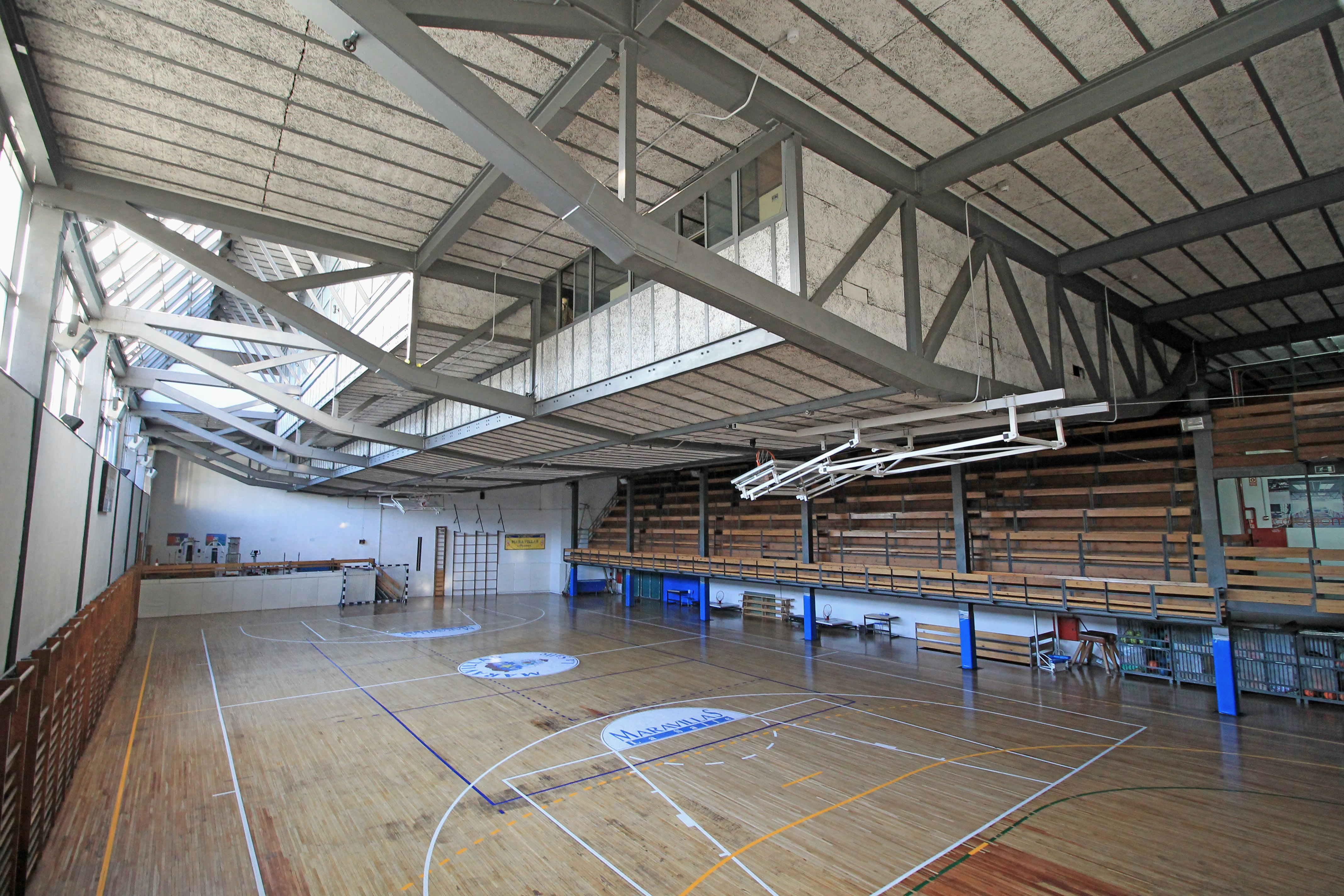 The gymnasium of Colegio Maravillas (a school) in Madrid (Spain).